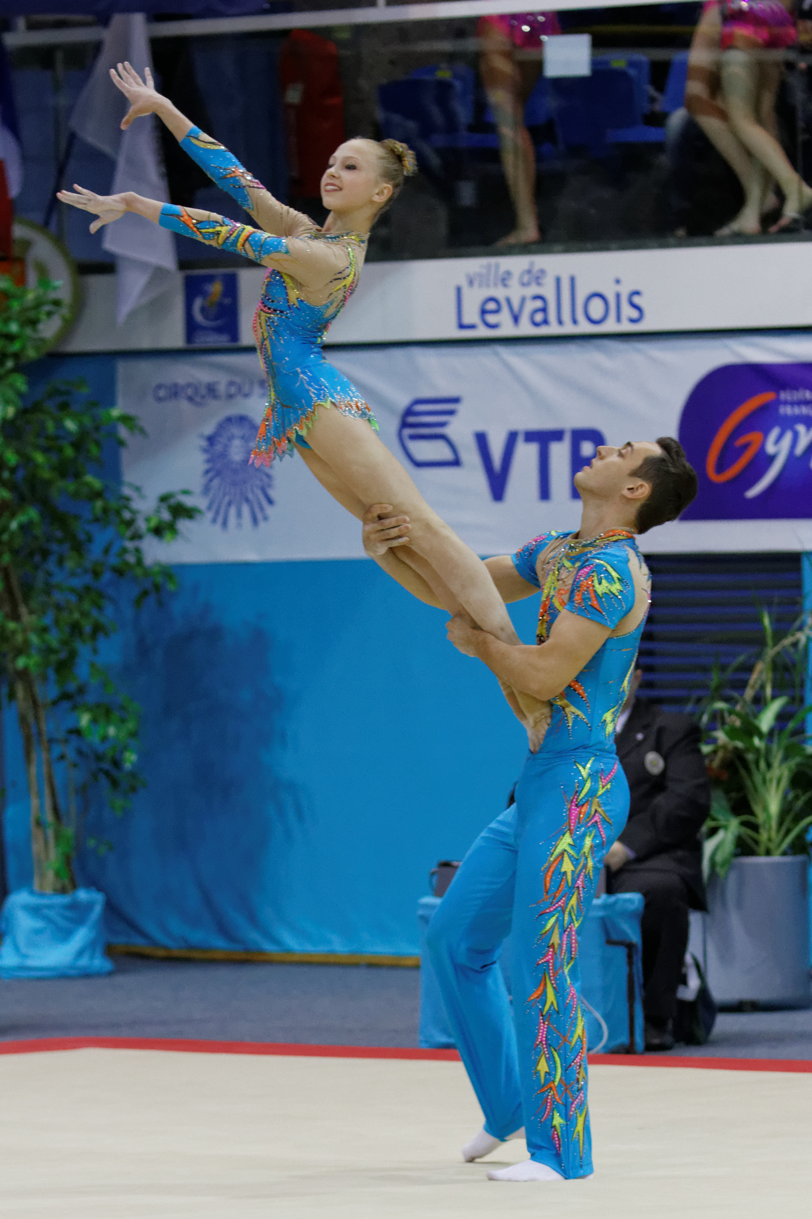 2014 Acrobatic Gymnastics World Championships, 10th-12 July, Levallois-Perret, France. Qualifications: mixed pair. Belarus 2.